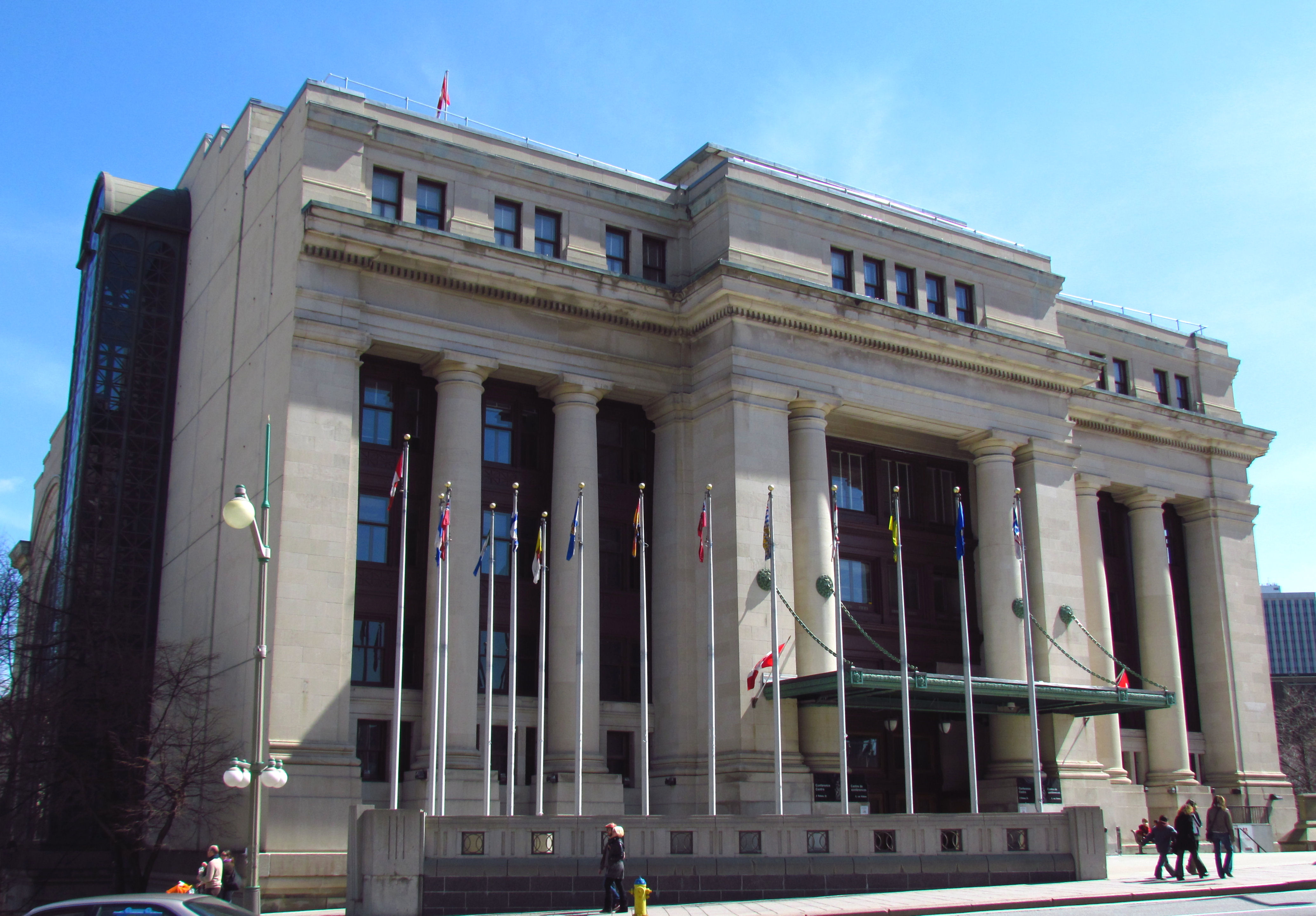 Government Conference Centre, Ottawa, Ontario, Canada